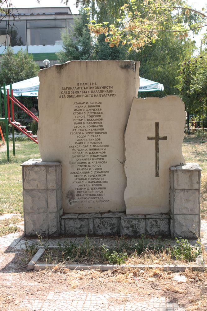 Anticommunist memmorial in Tsalapitsa village, Bulgaria